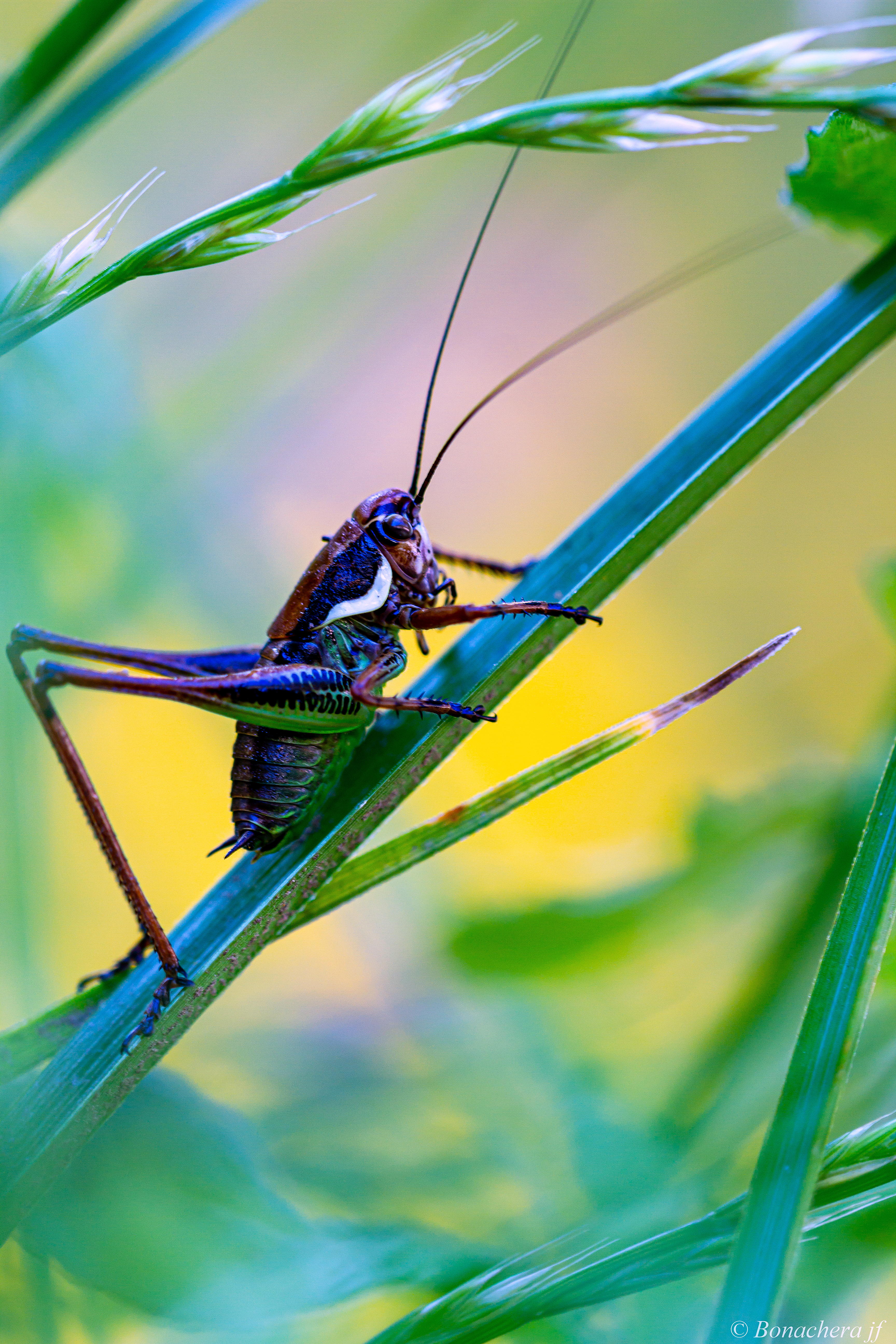 Decticelle corses sous espèce de sauterelle endémique de l'île.